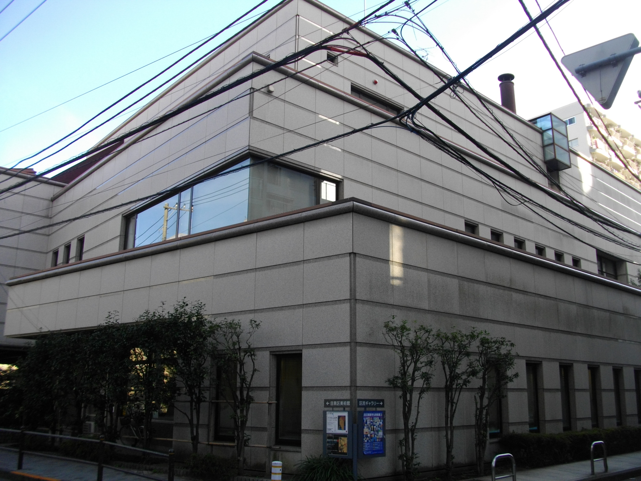 Meguro Museum of Art, Tokyo Pentax Optio E60